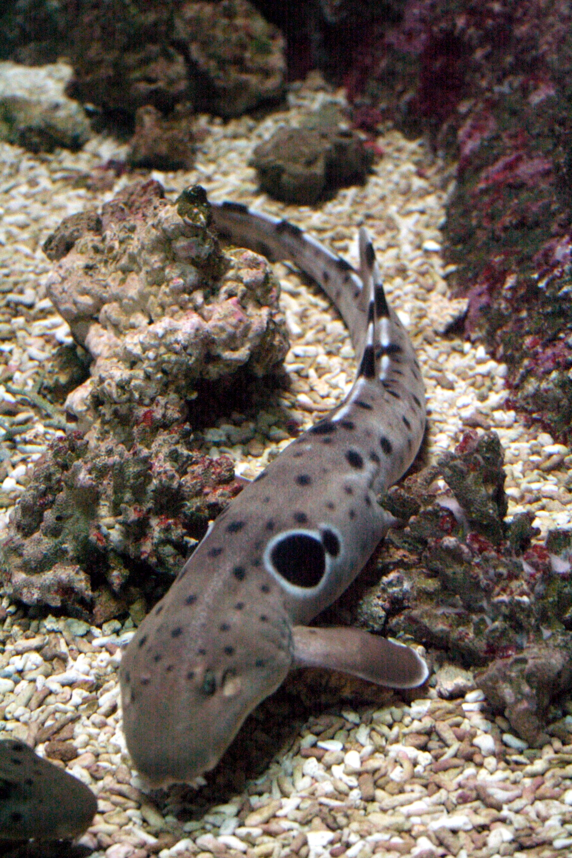 Heliscyllium ocellatum (Epaulette Shark) at Océanopolis, Brest, France